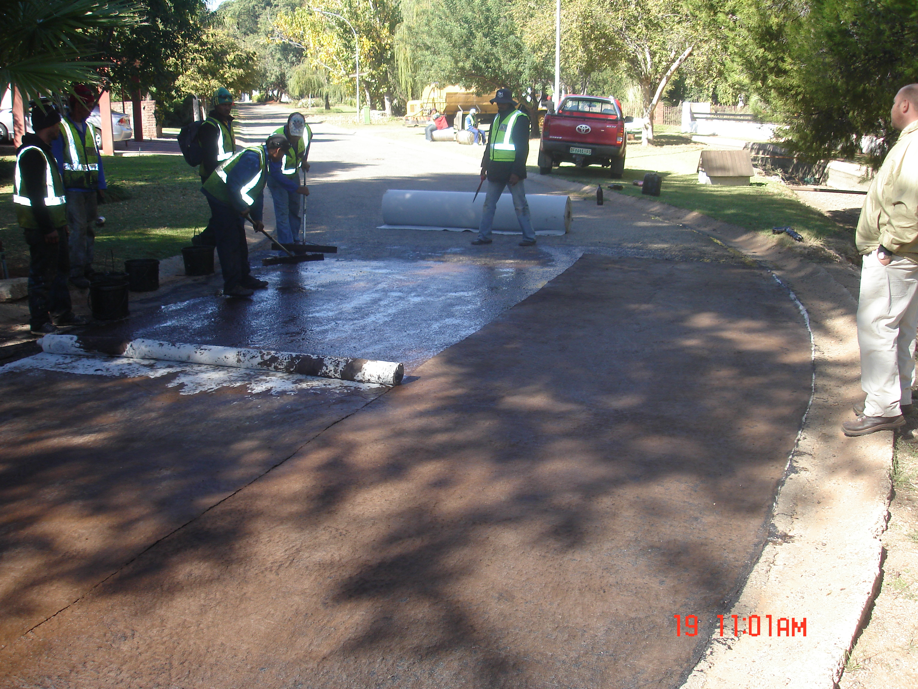 Here we are using a emulsion and a material to protect the road from cracking. This is an image of "African people at work" from South Africa